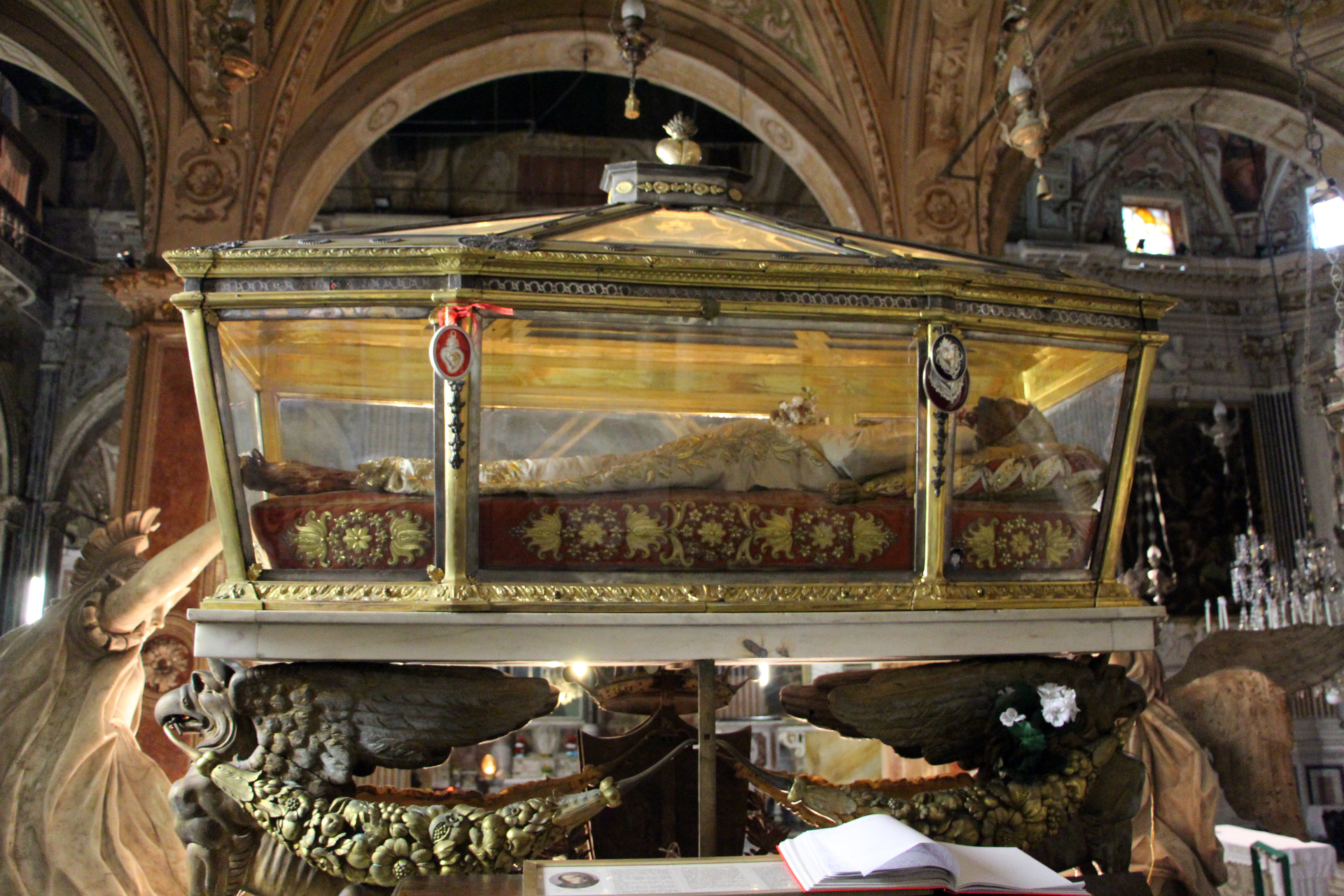 Mausoleum of Saint Catherine of Genoa